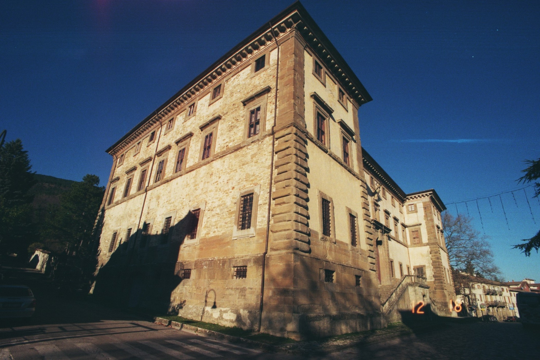 Palace of the Princes of Carpegna